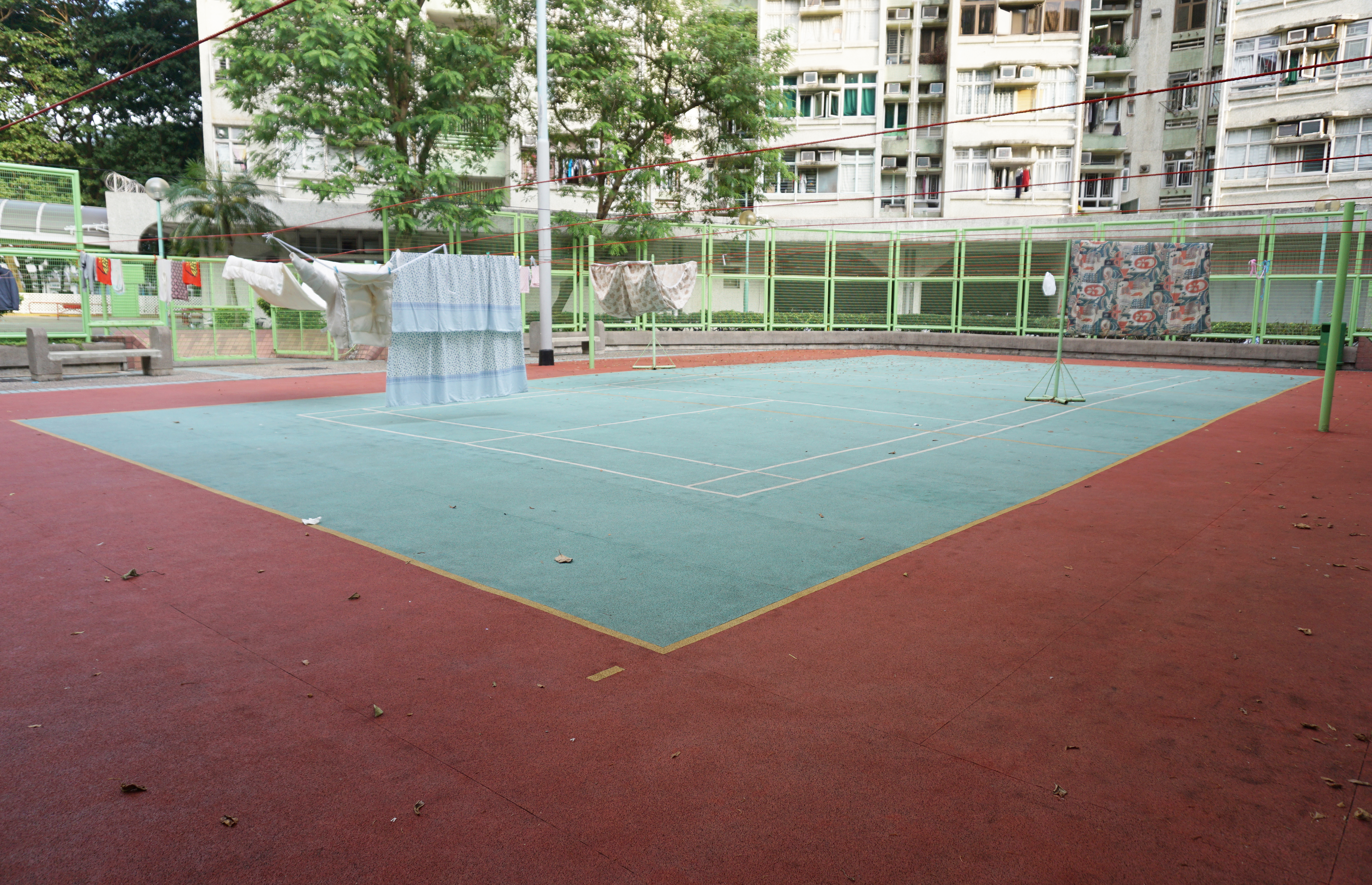 Chung Nga Court in Tai Po, Hong Kong.